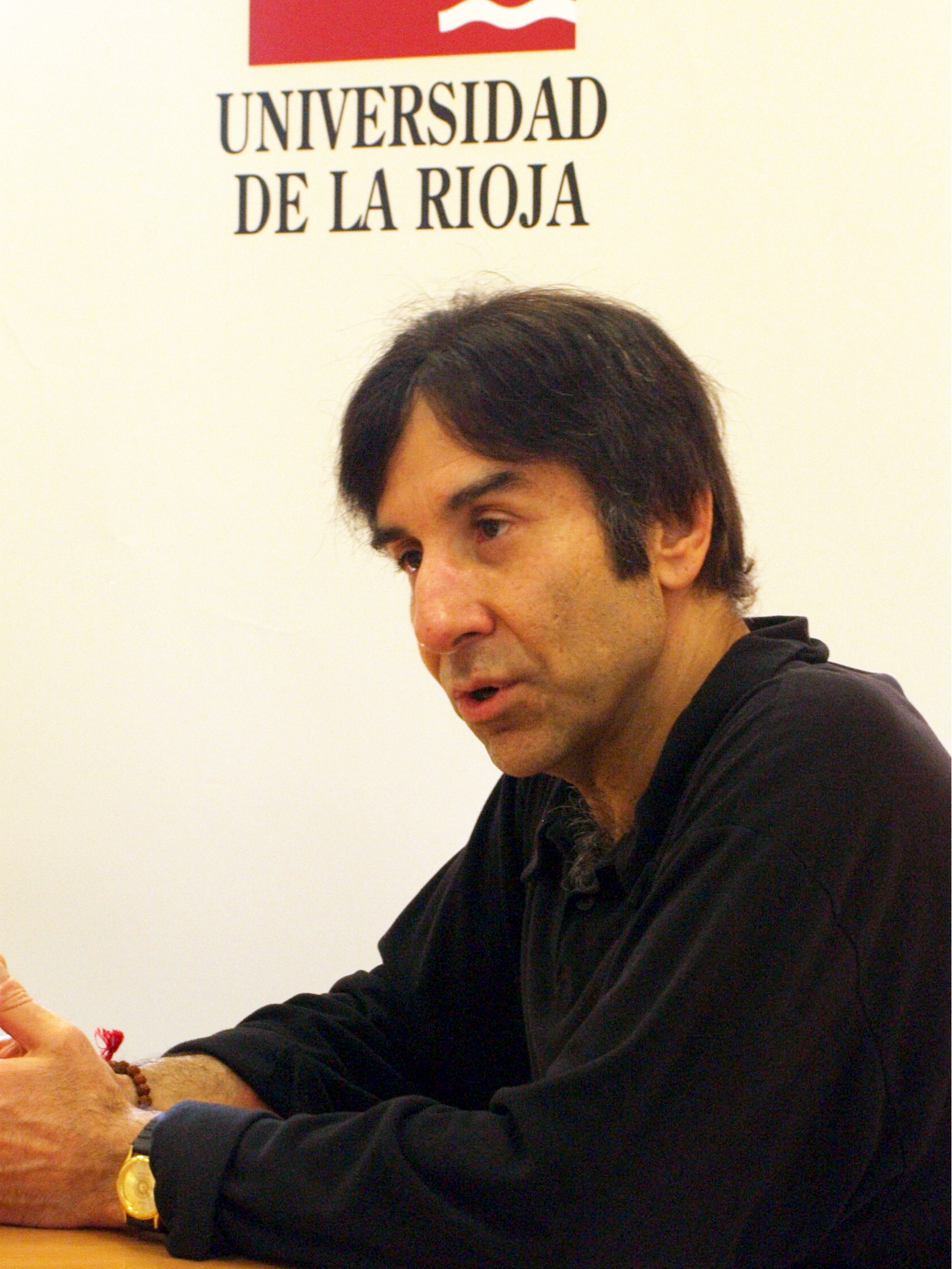 Gary Francione in the University of La Rioja.